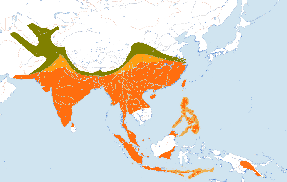 Distribution map of Lanius schach